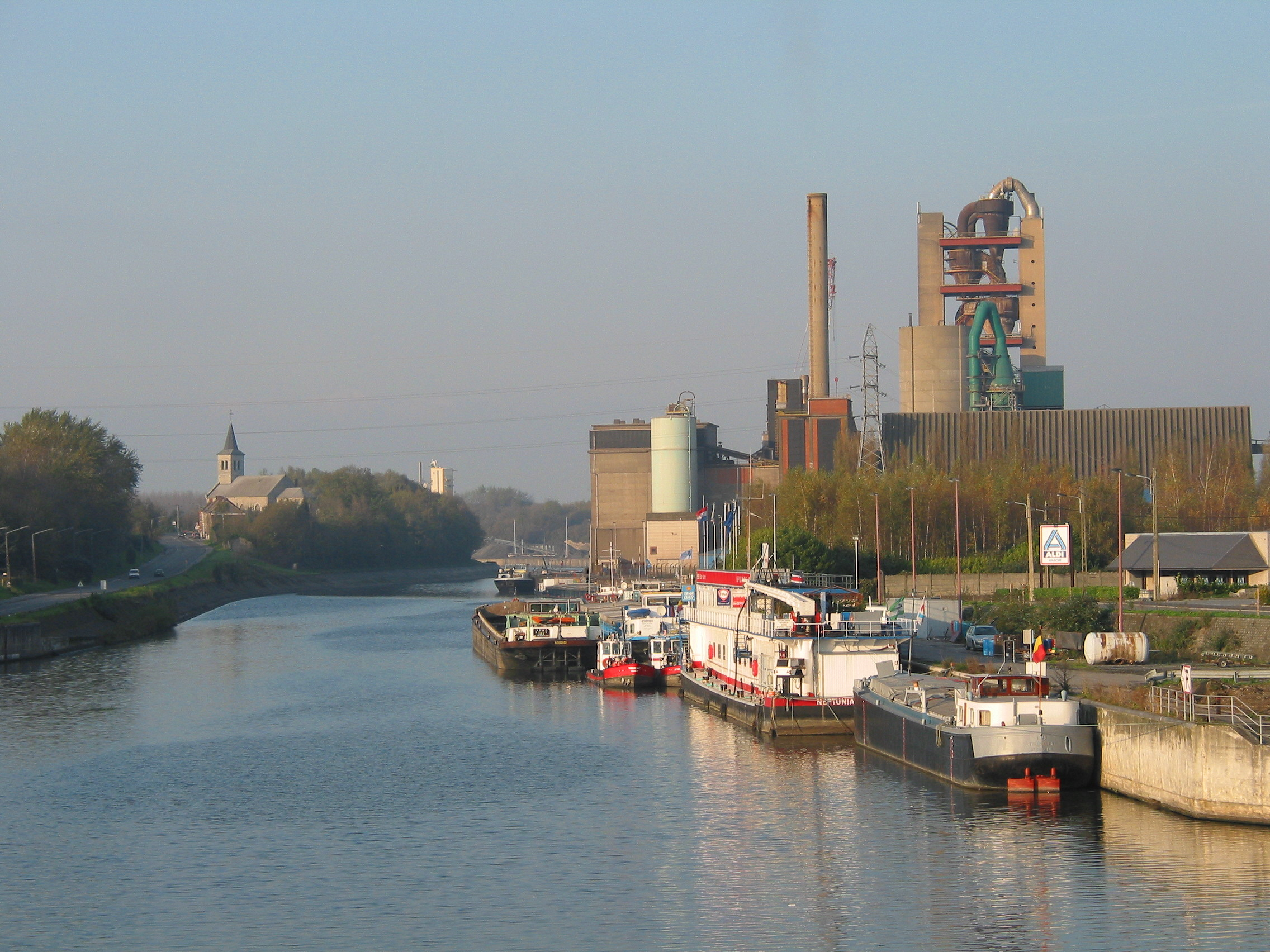 Antoing (Belgium), the Escaut river, the CBR cemetery and the Calonne church.